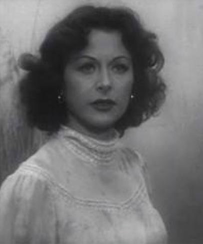 Cropped screenshot of Hedy Lamarr from the trailer for the film A Lady Without Passport